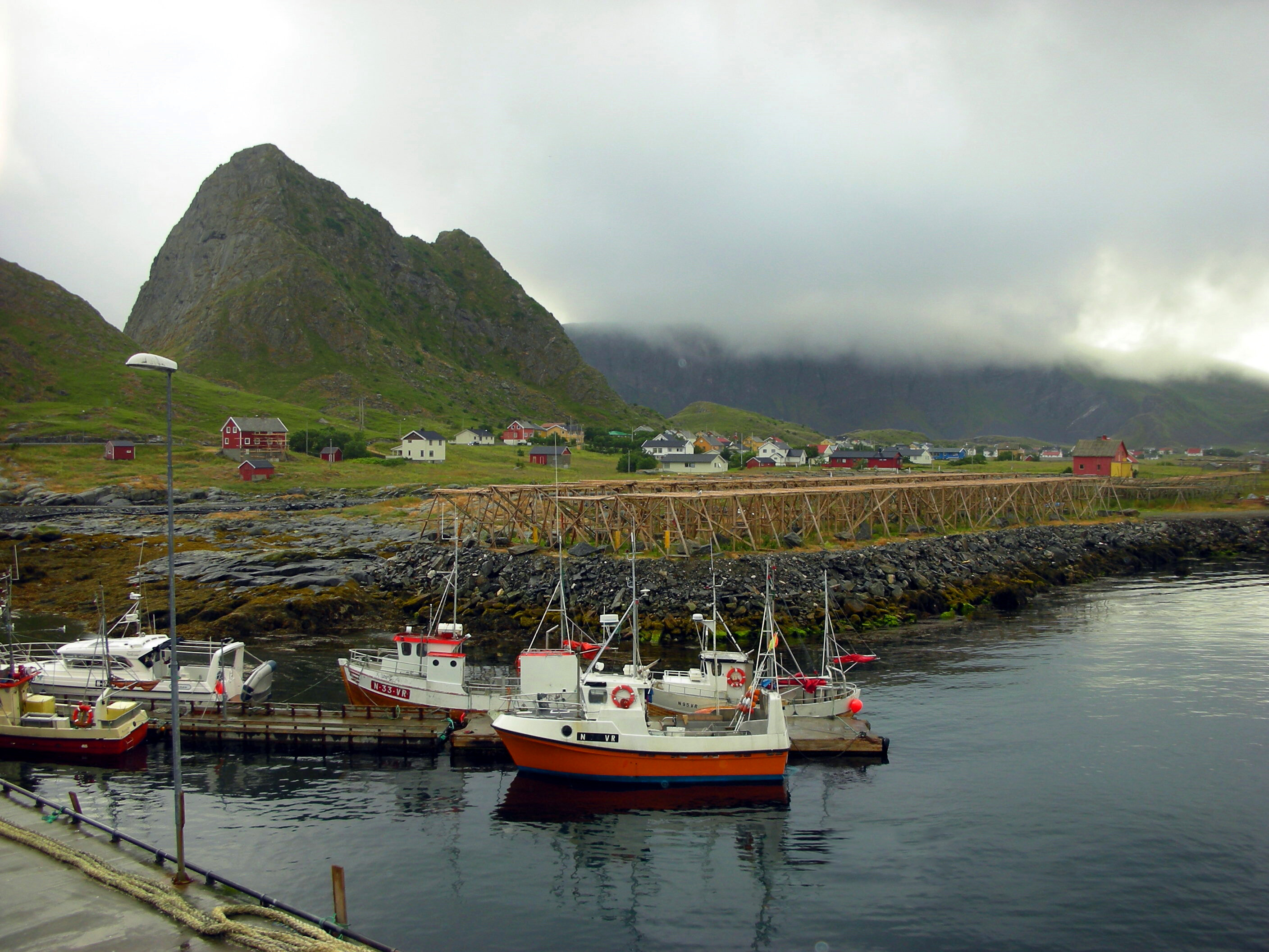 The island and village Værøy in the sea Norskehavet, near Lofoten, Norway.